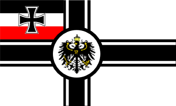 The Kaiserliche Kriegsflagge (the War Ensign of the Kaiserliche Marine, the Imperial Germany Navy, 1903–1919)